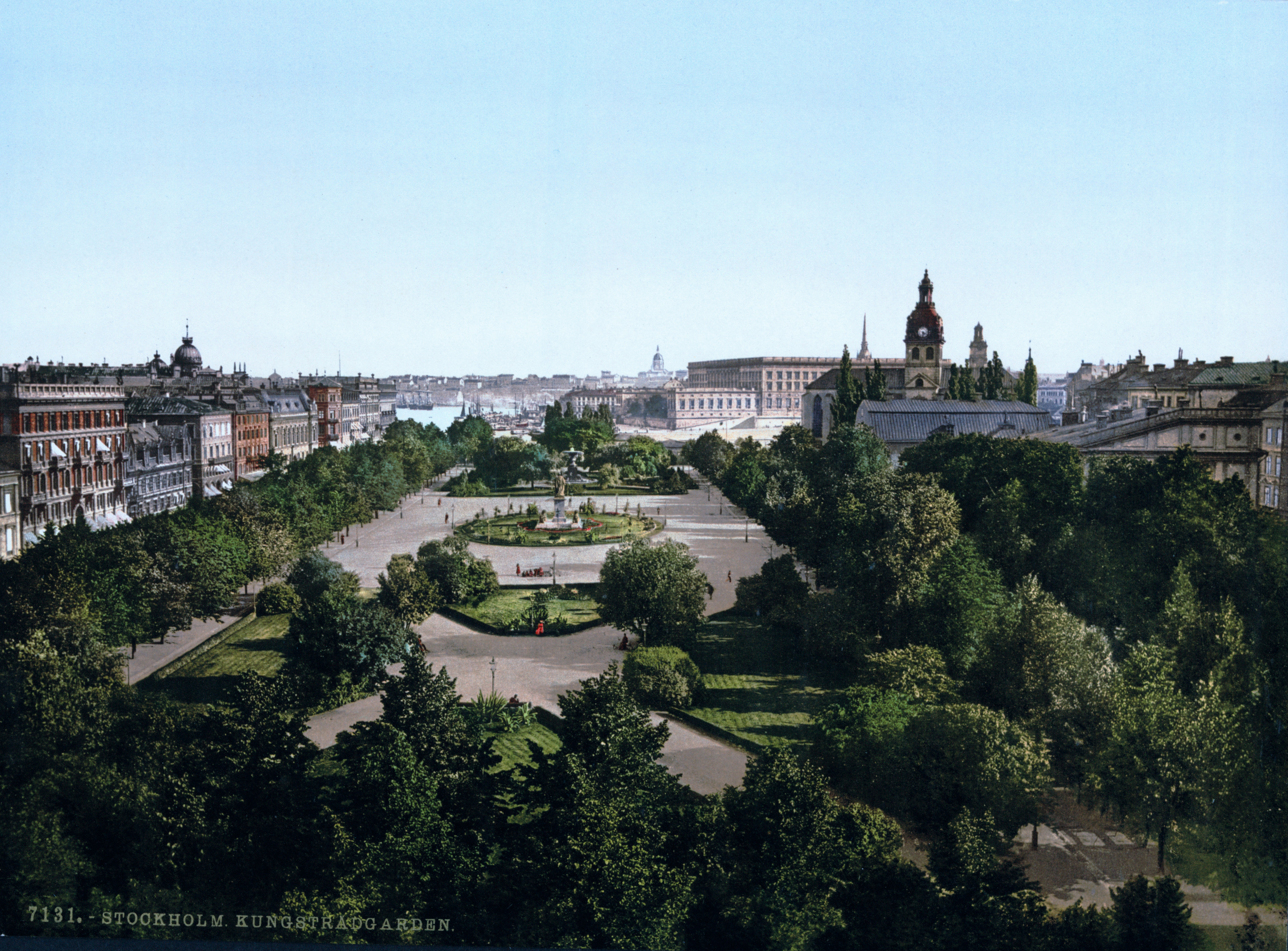 The park Kungsträdgården in Stockholm. Frank and Frances Carpenter Collection: Print no. "7131"